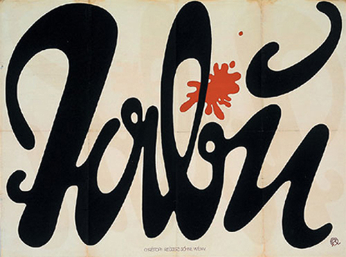 Poster of "Tabu" cigarette papers.